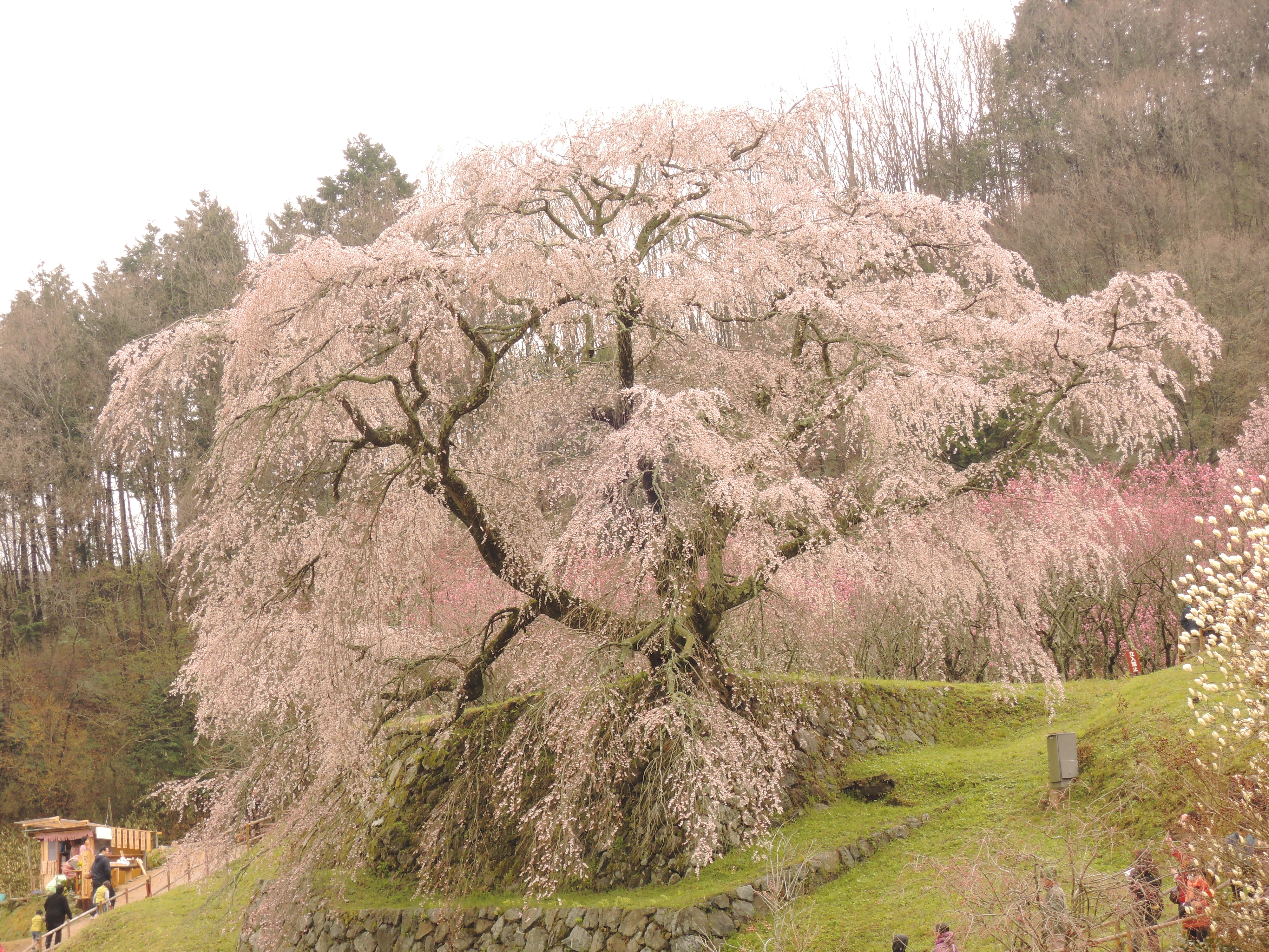 Matabei-zakura tree in Uda, Nara Prefecture, Japan.